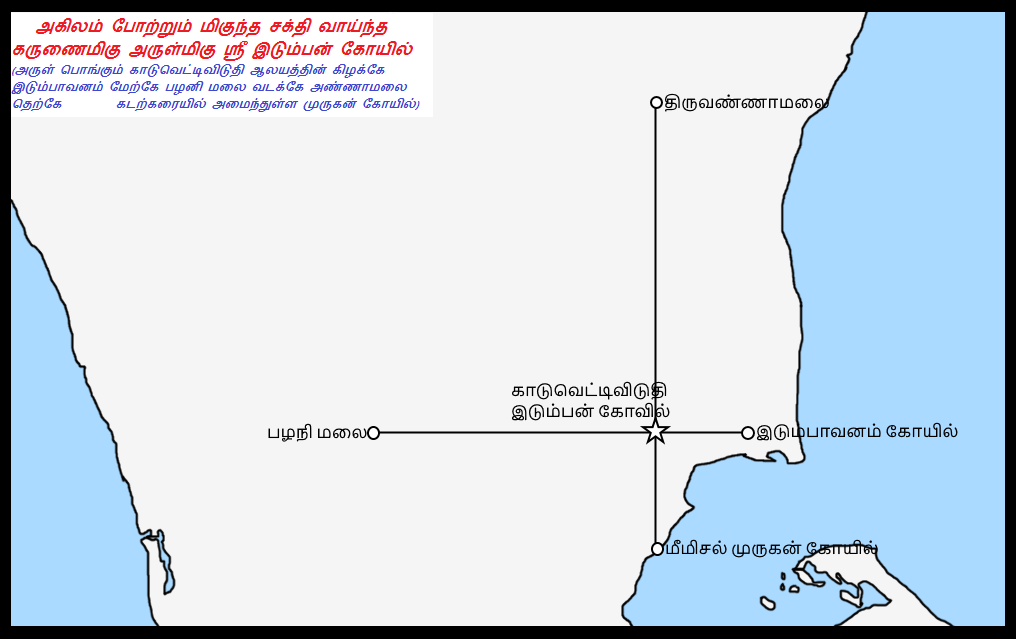 idumban